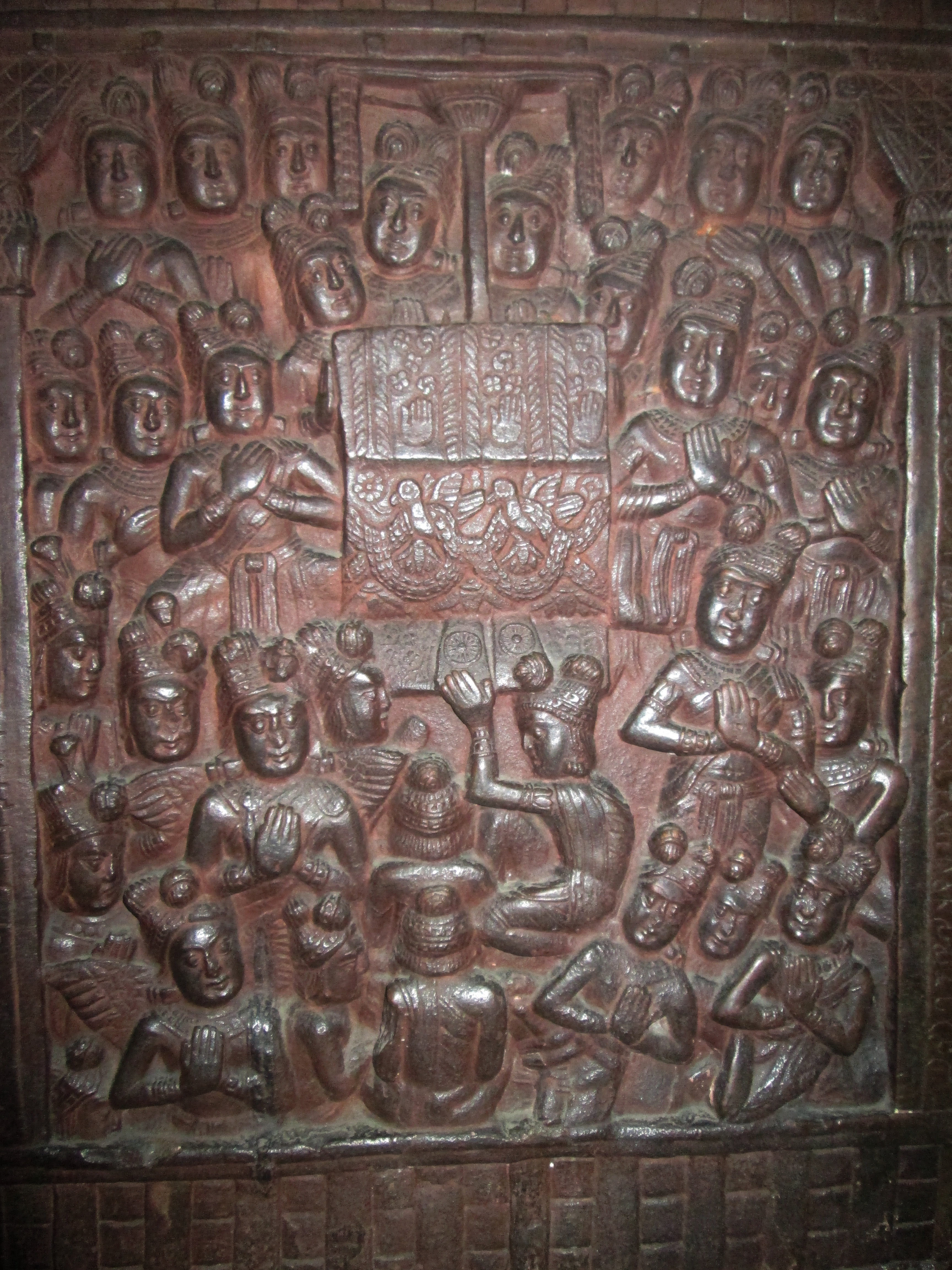 06 Ajatasattu worships the Buddha, Bharhut Stupa at the Indian Museum, Kolkata Photograph from the Indian Museum in West Bengal taken by Anandajoti.